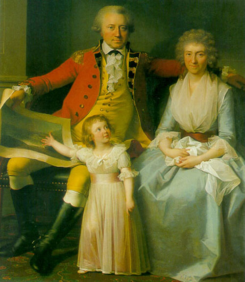 Peder Anker and family. Peder Anker, the first prime minister from Norway in the personal union with Sweden, and his family - his wife Anna Elisabeth and daughter Karen. Karen was later to marry Herman Wedel-Jarlsberg. Karen can be seen pointing to a picture of Bogstad, where they lived.